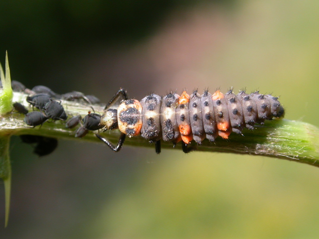 Larvae of the 7 spot ladybird eating aphids